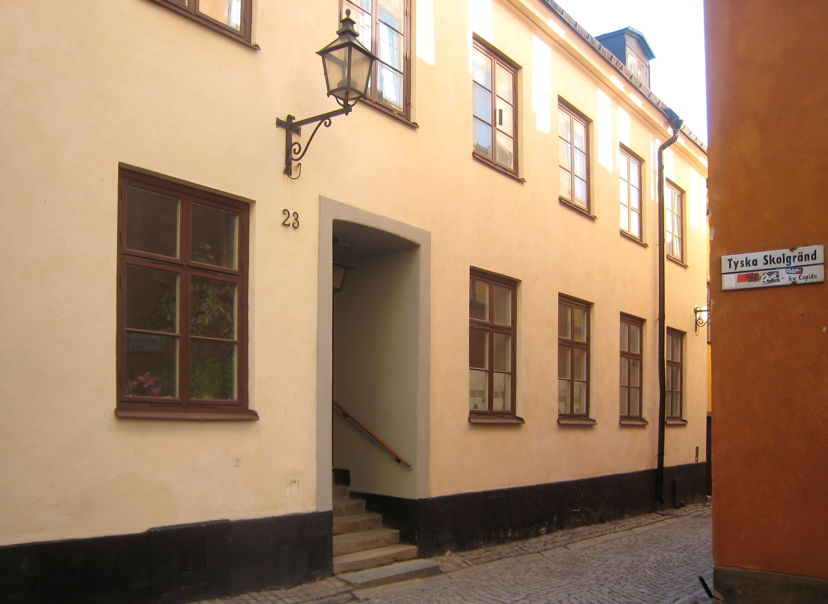 Baggensgatan 23